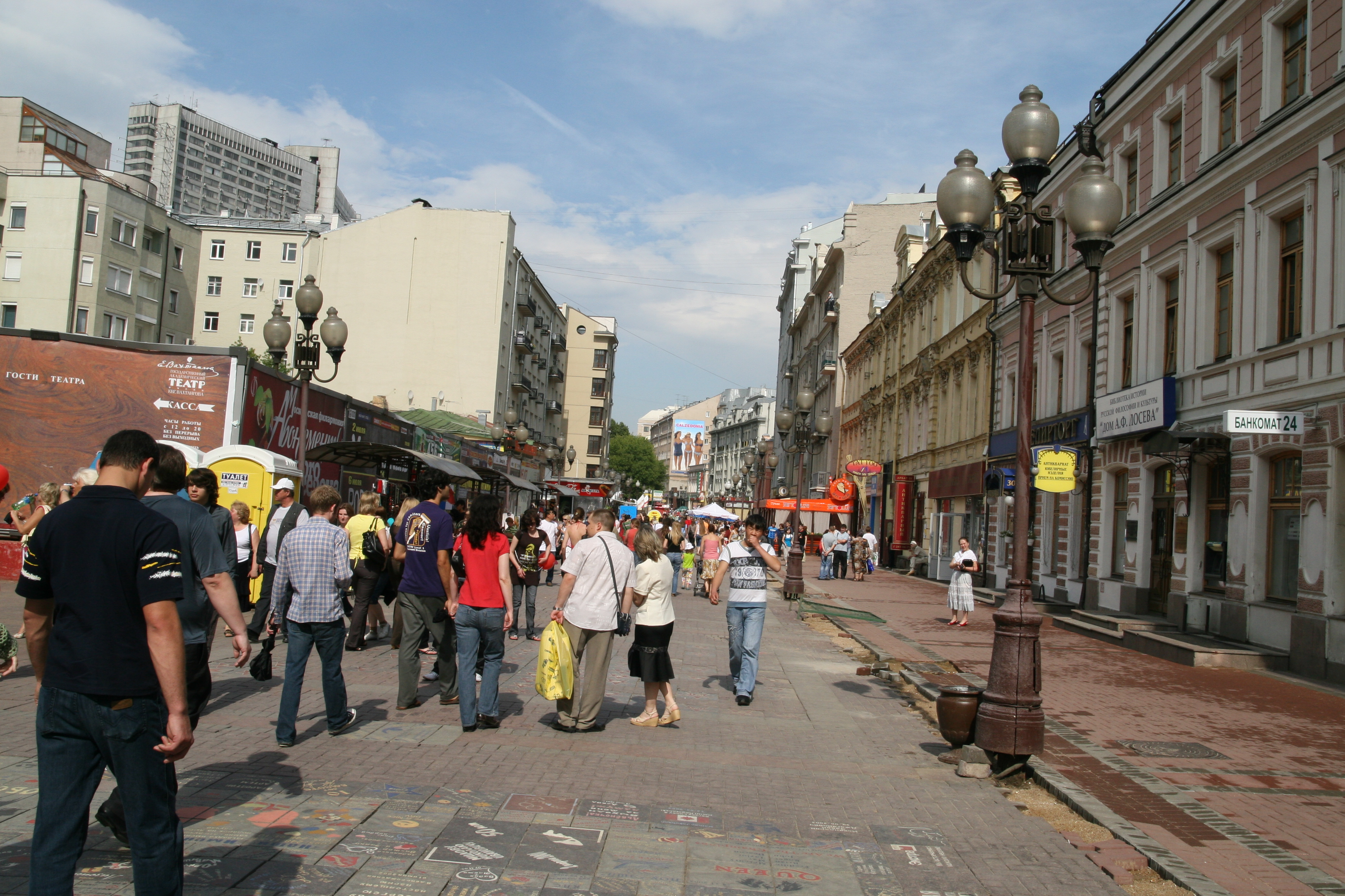 Arbat street, Moscow